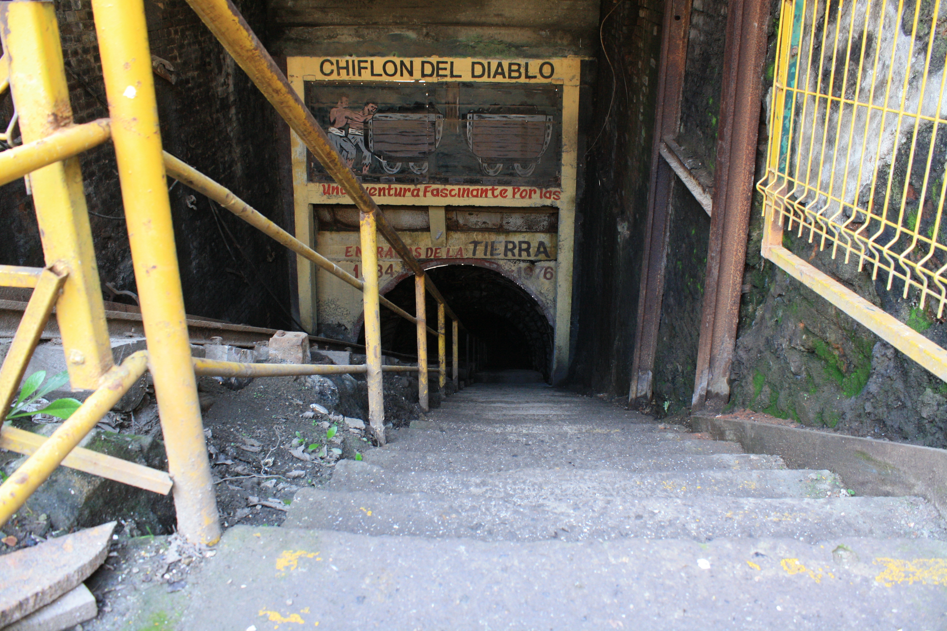 This is a photo of a national monument in Chile: 2129